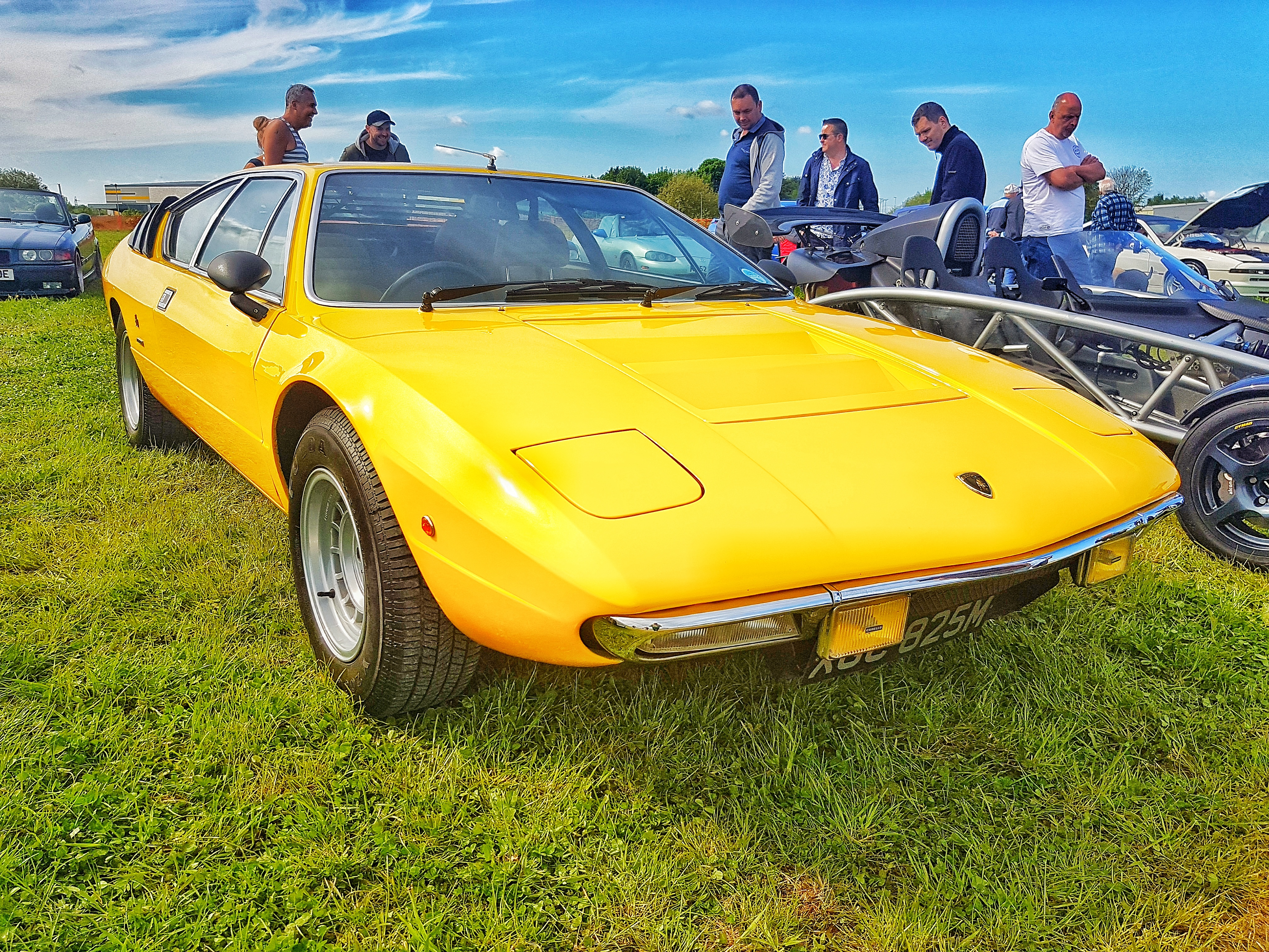 Taken at the manchester cars and coffee event at city airport